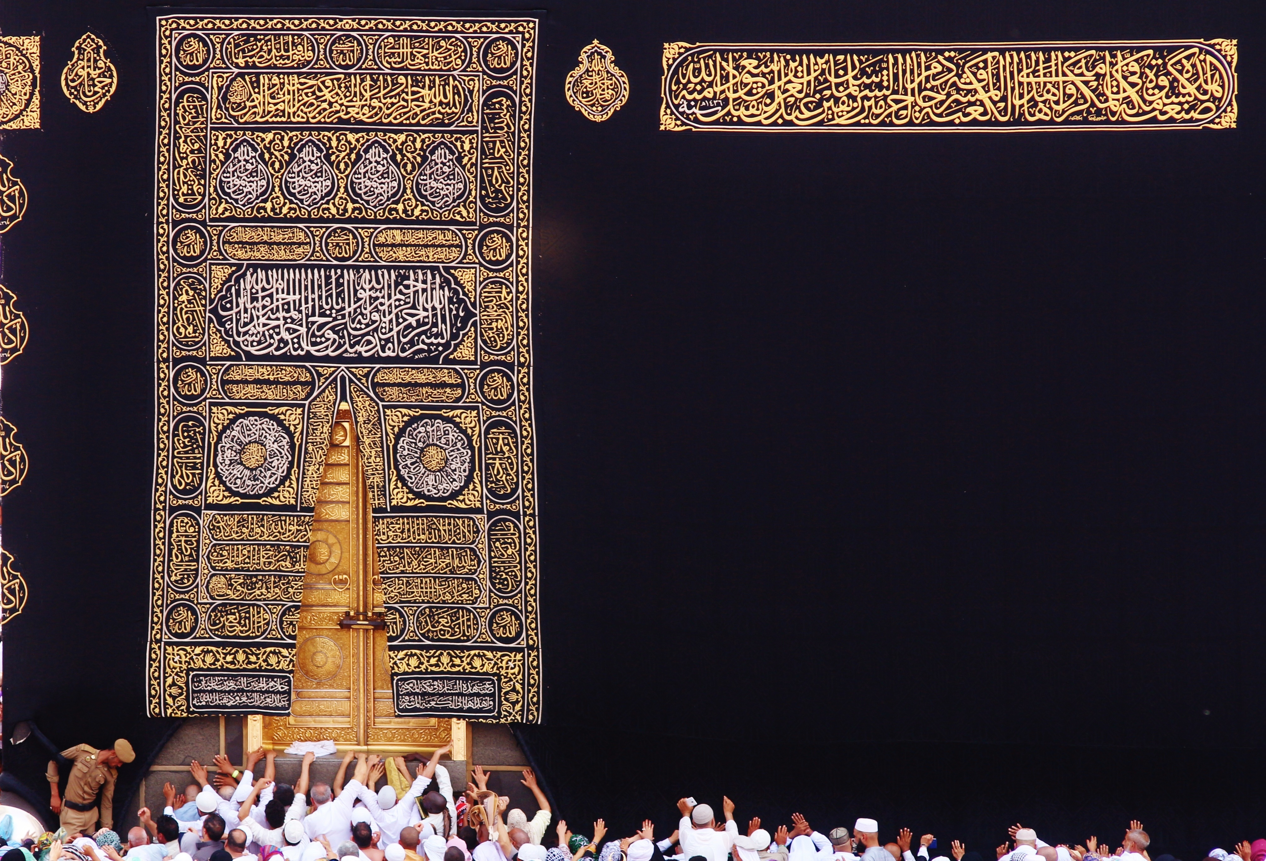 Kiswah, Kaaba - 7 May 2016